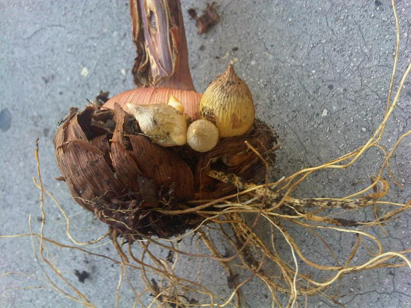 Unidentified Gladiolus sp. corm in London, England.